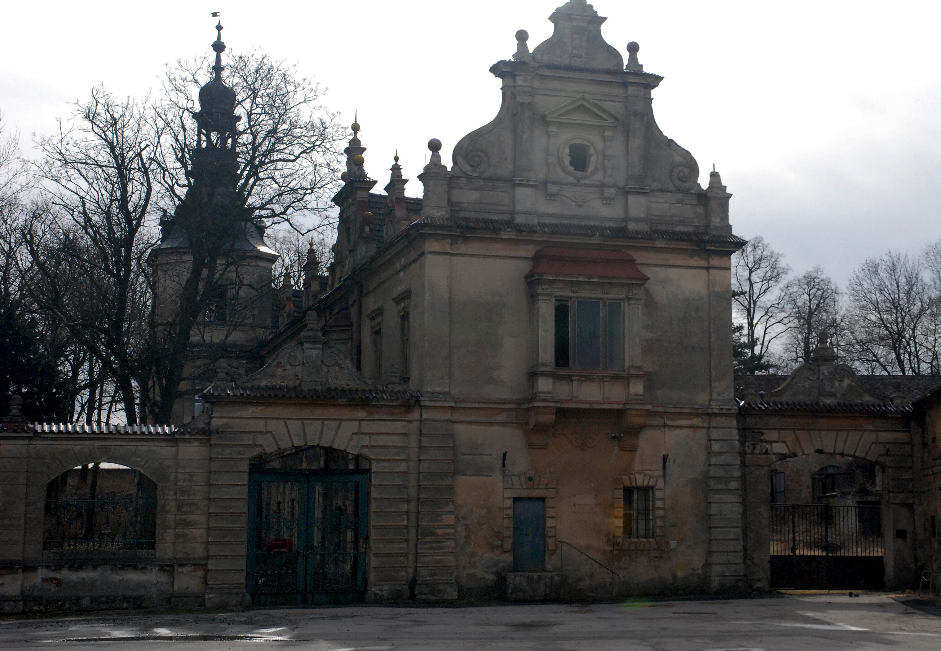 Vysoký Újezd, zámek This photograph was taken within the scope of the third year of the 'Czech Municipalities Photographs' grant.